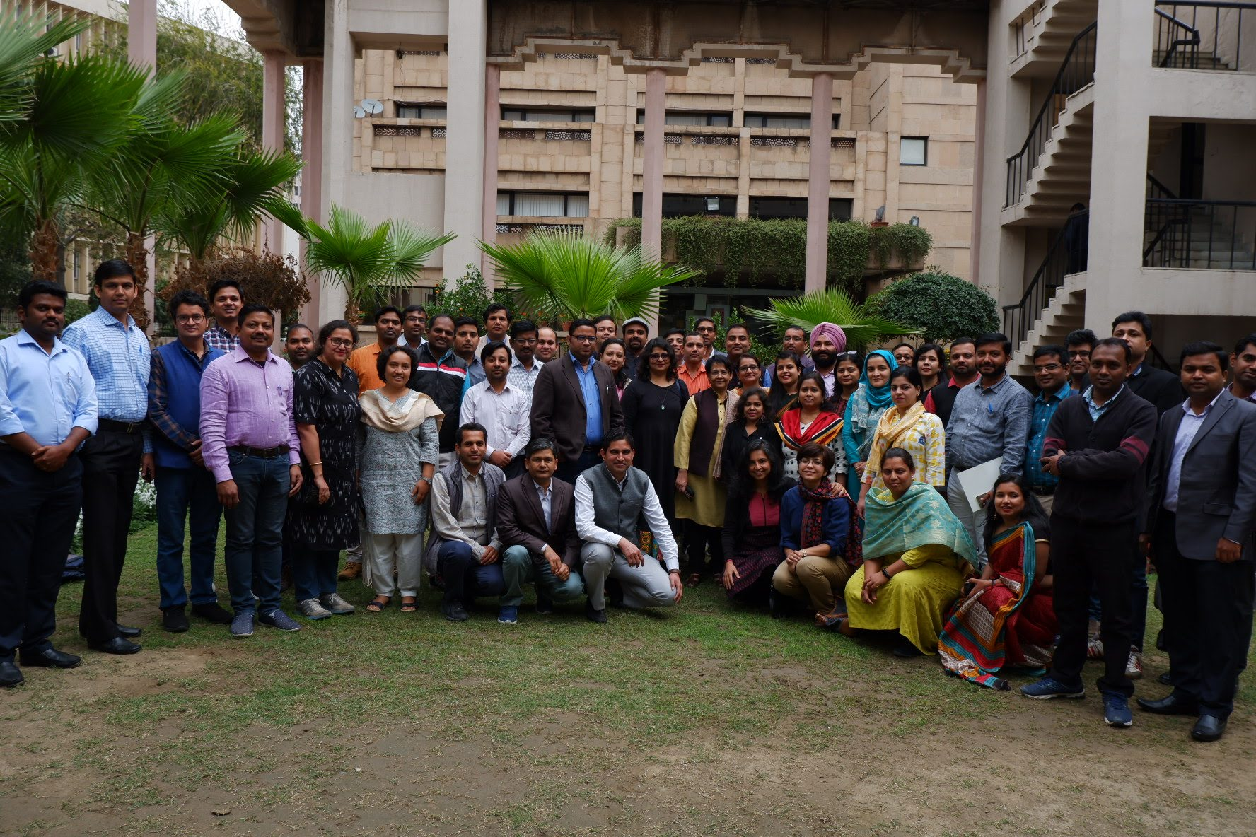 Group photo of 5th GBM of INYAS